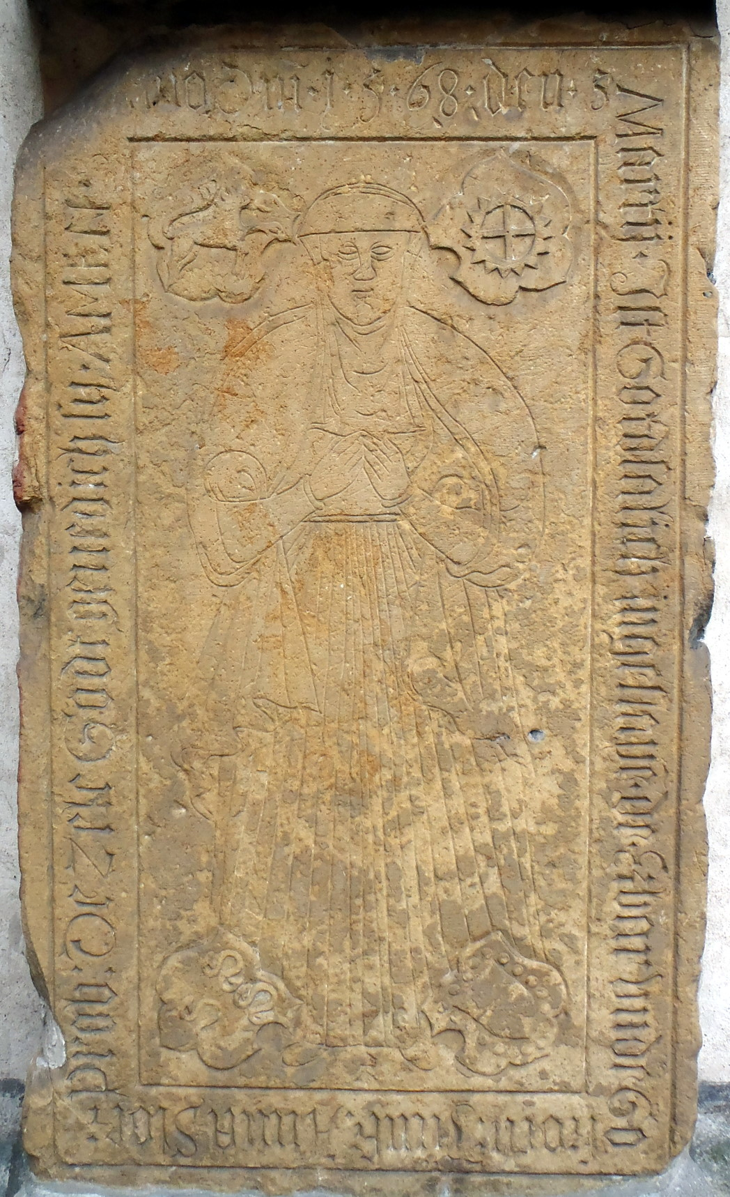 Gravestone of Anna von Sloer († 1568) at the Marienkirche in Herford/Germany